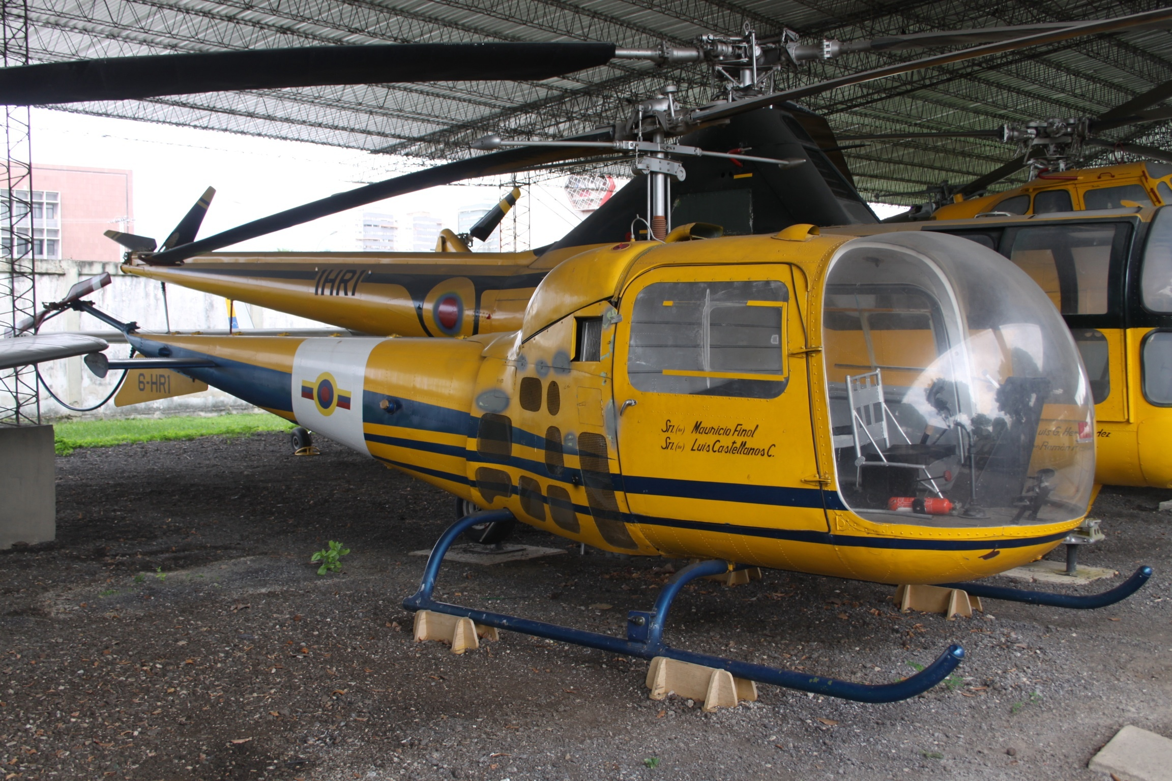 At Museo Aeronáutico de Maracay